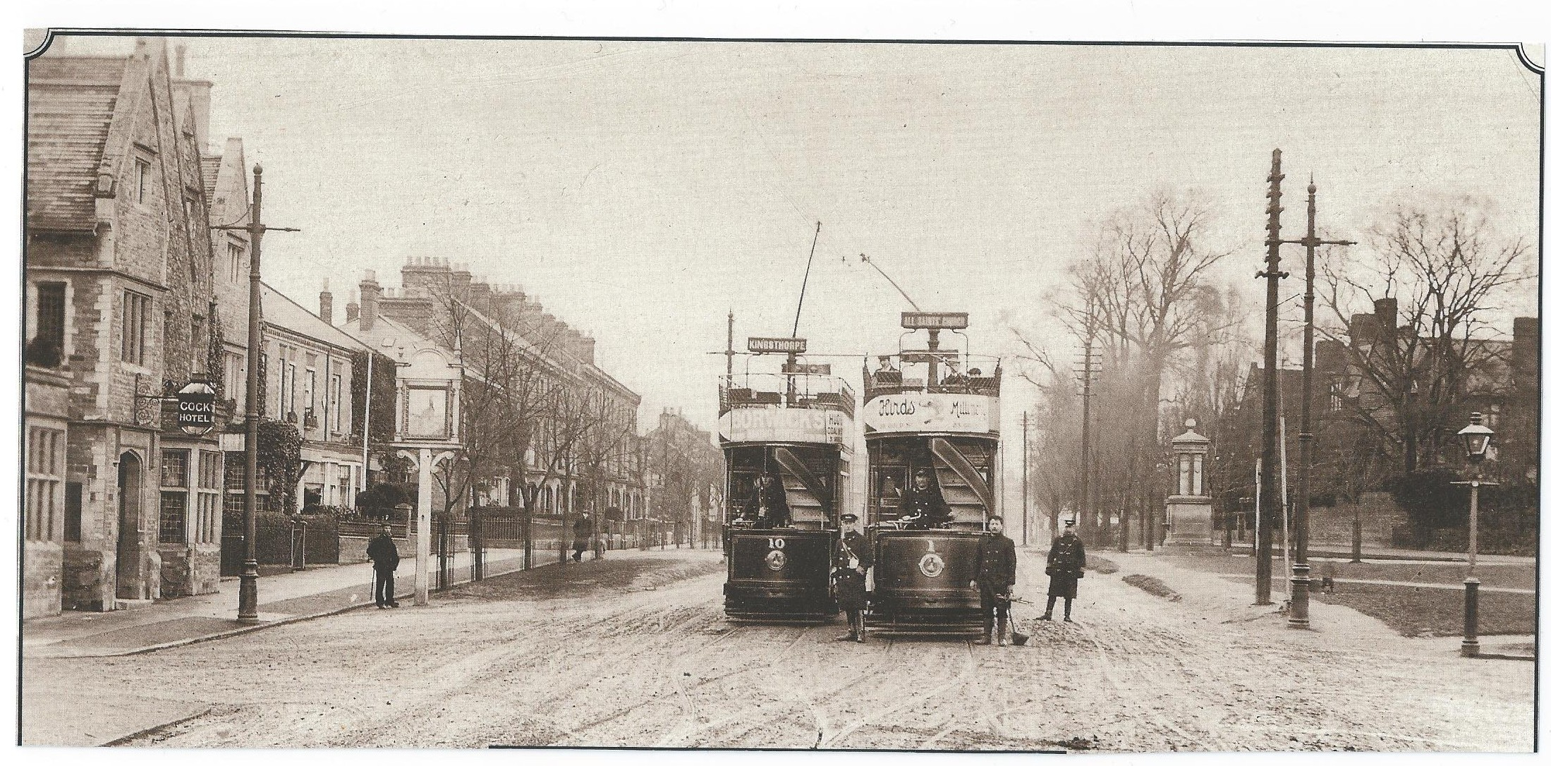 Northampton Corporation trams outside the Cock Hotel, Kingsthorpe, Northampton, circa 1905